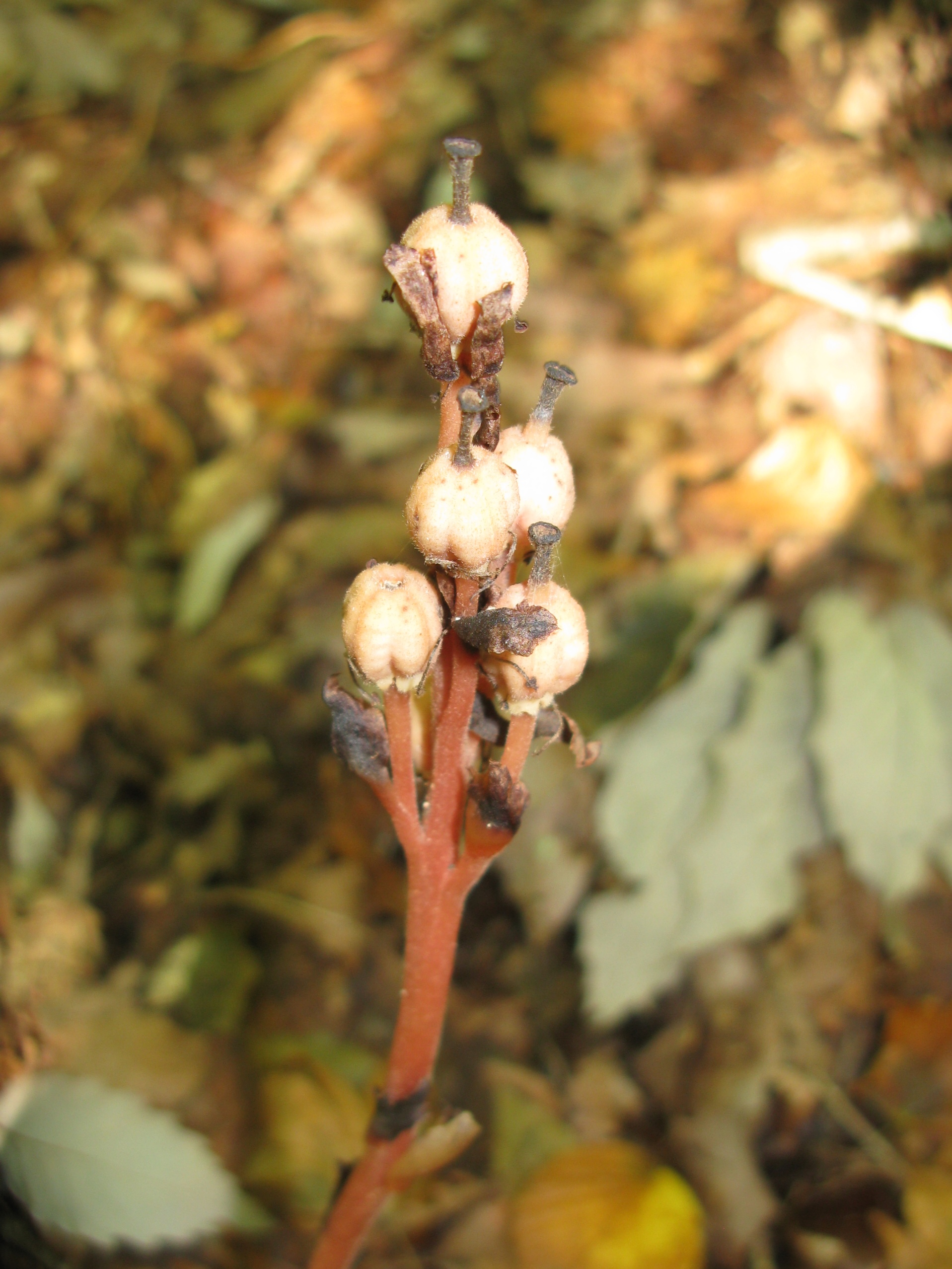 Monotropa hypopithys, Aizu area, Fukushima pref., Japan